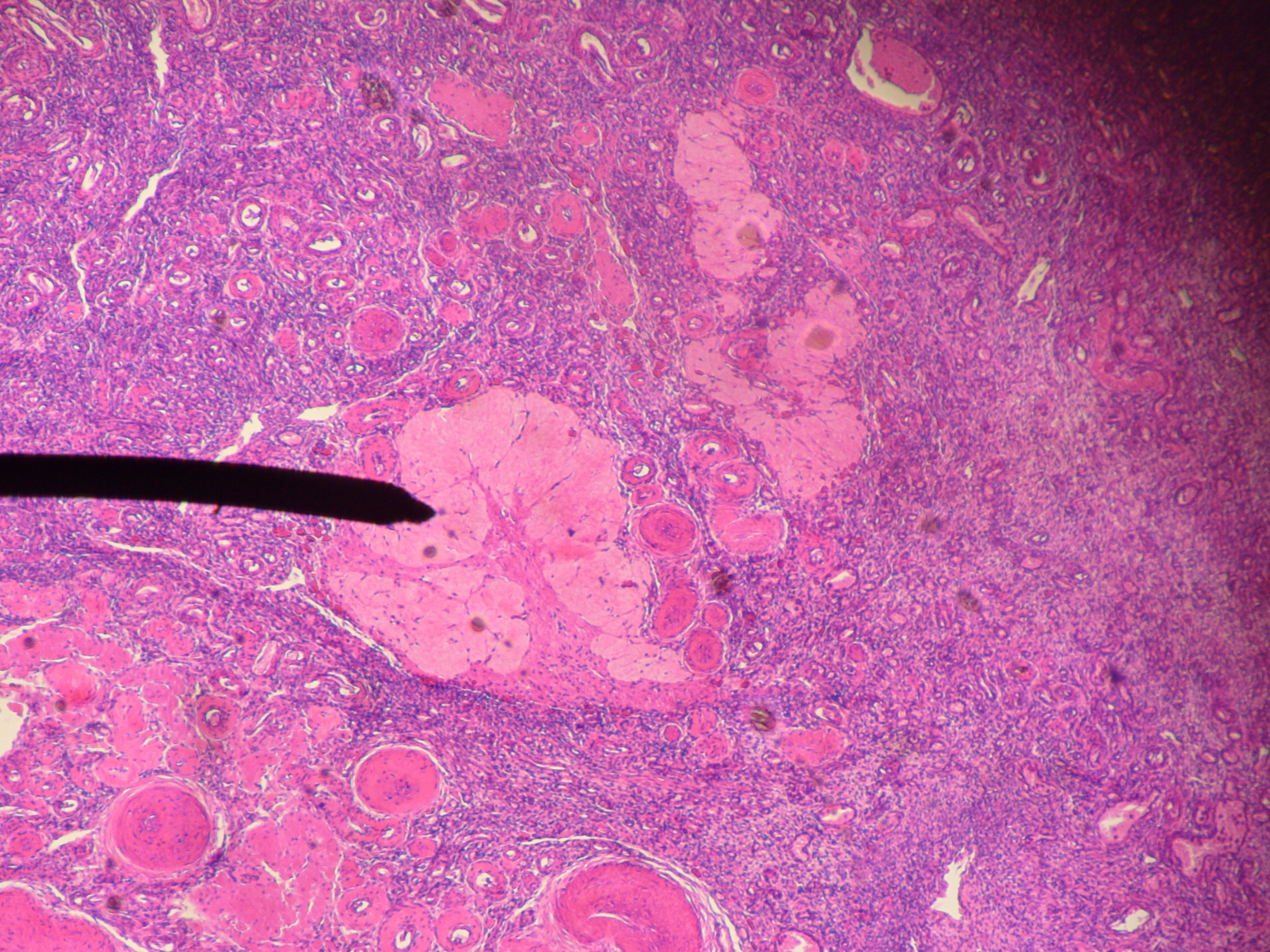 Digital camera shot though a microscope; human corpus albicans.